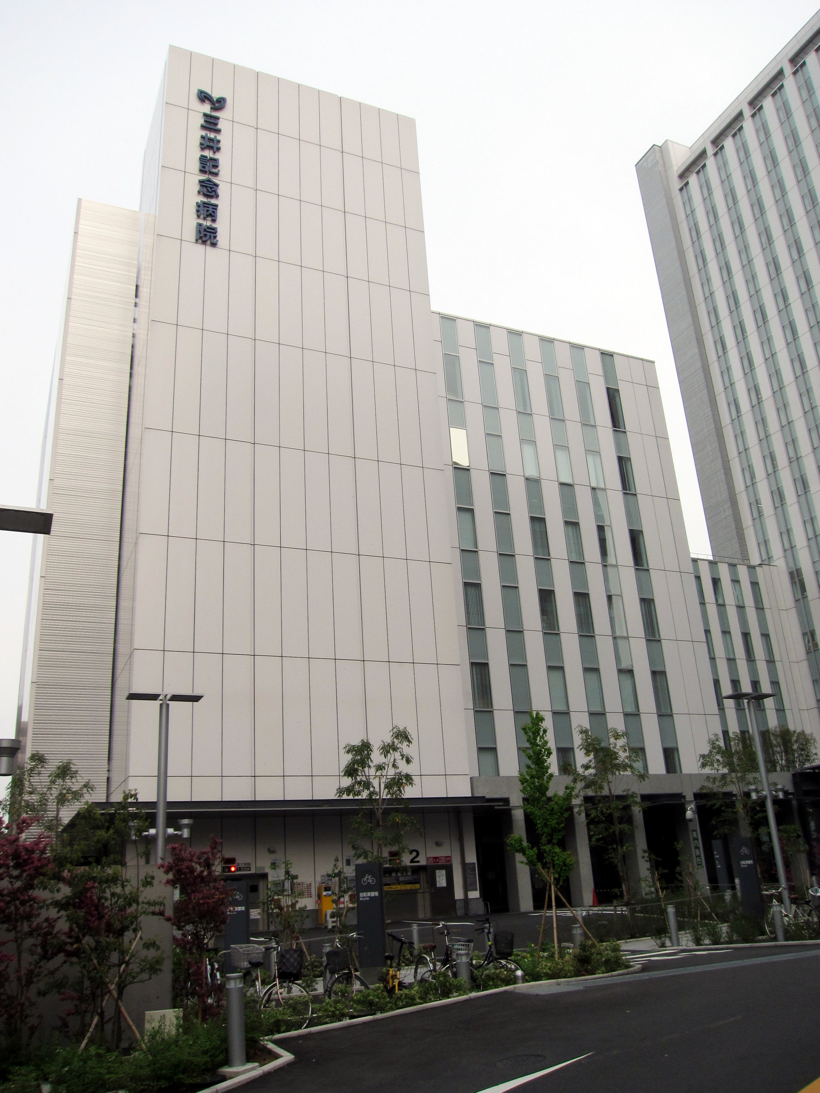 Mitsui Memorial Hospital